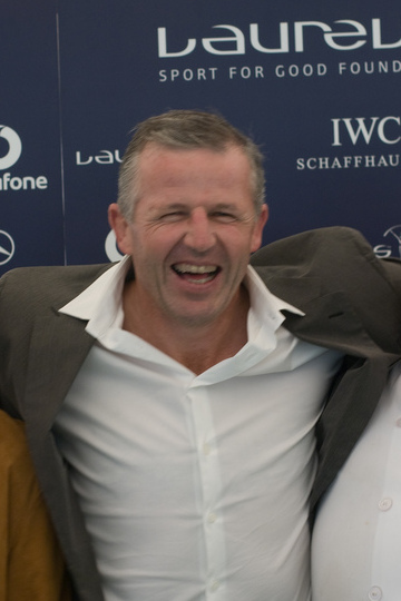 The New Zealand rugby union player Sean Fitzpatrick at the 2008 Laureus Day in London